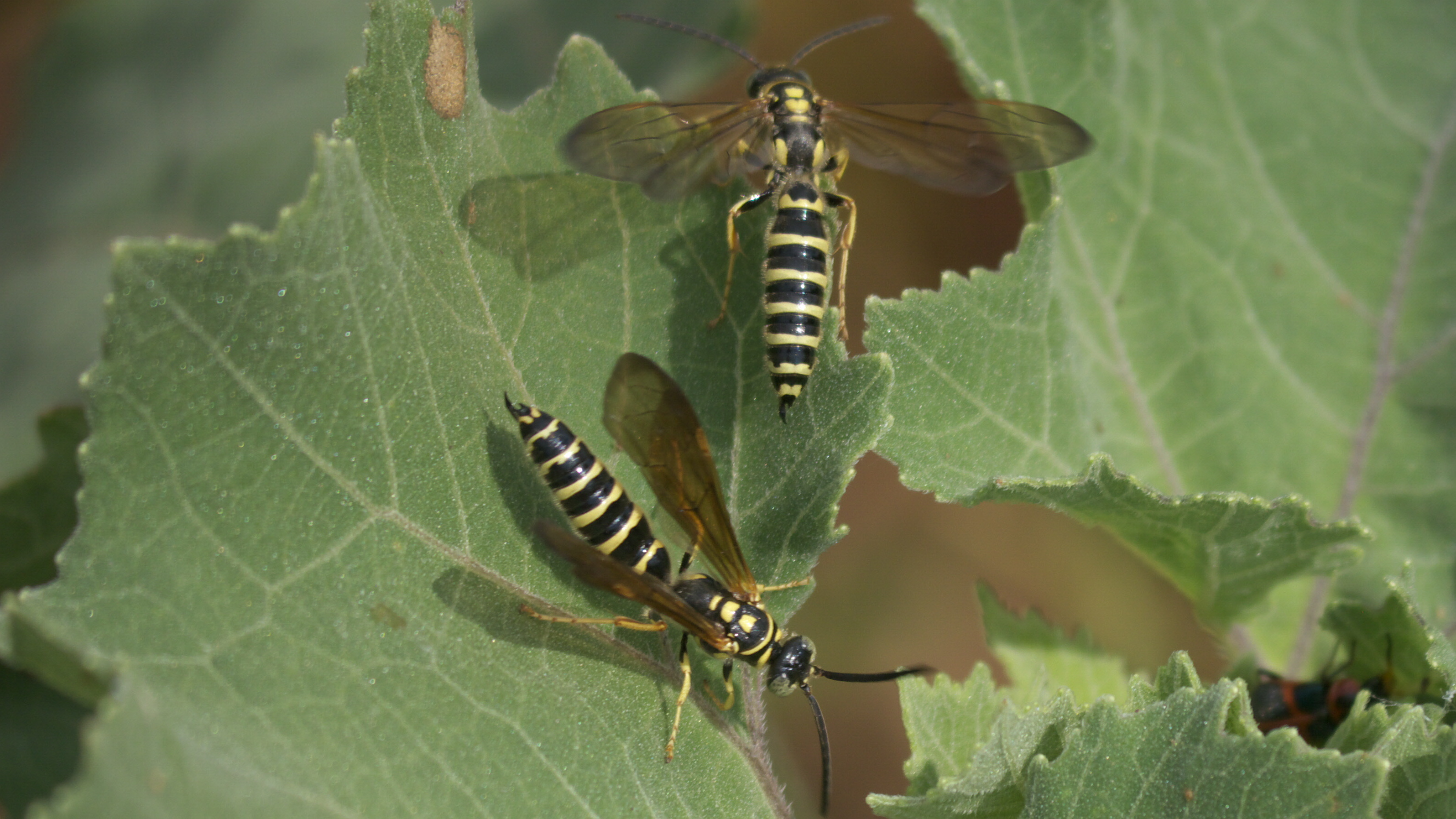 Myzinum quinquecinctum, Five-banded Thynnid Wasp, Size: around 1 inch, ID Confidence: 98